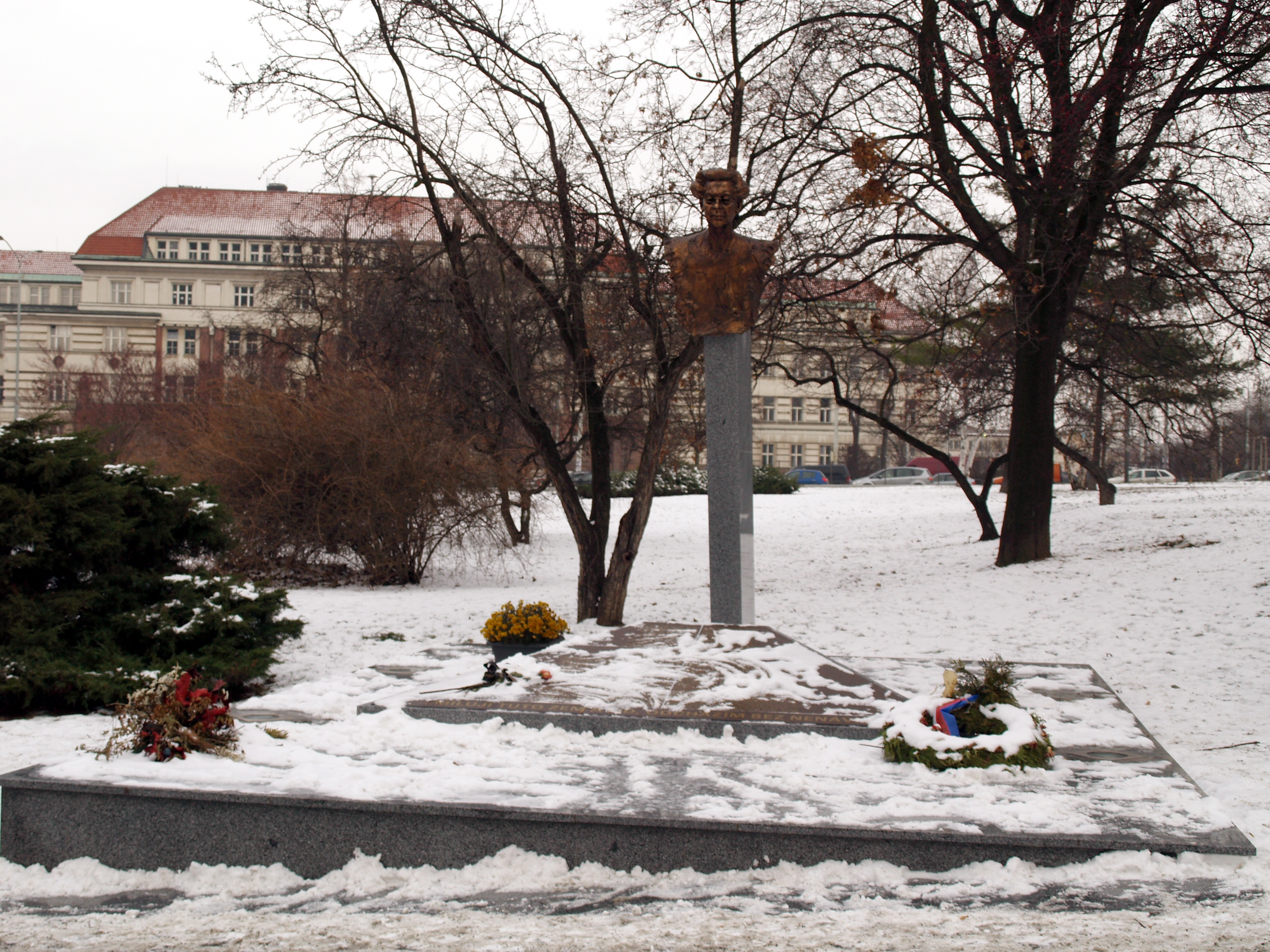 Memorial of Czech victims of communist Czechoslovakia, featuring the bust of Czech politician Milada Horáková; located in Prague in front of the Pankrác Prison; bust inaugurated 2009-OCT-28; authors—architect Jiří Lasovský, sculptor Milan Knobloch